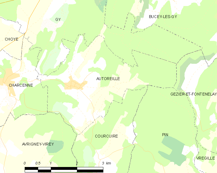 Map of French municipality